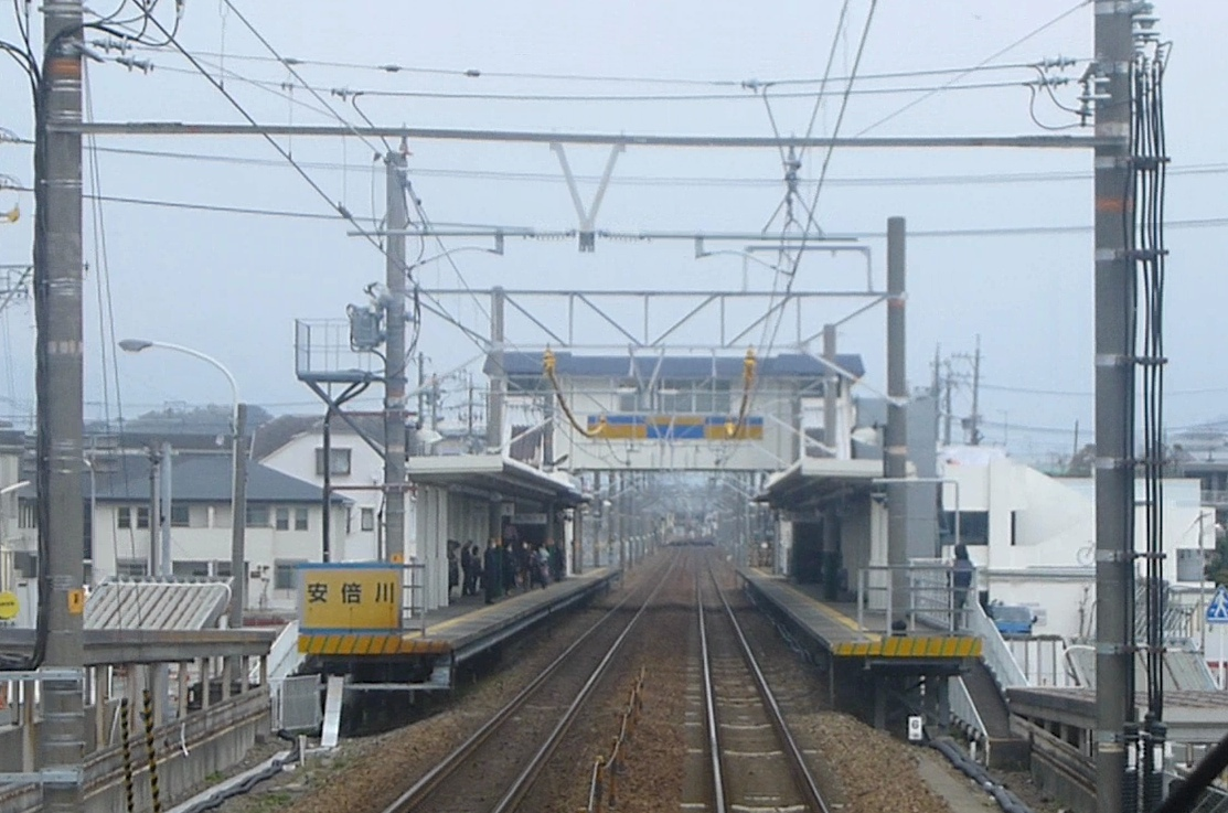 Abekawa station (安倍川駅） --- showing the station platforms.